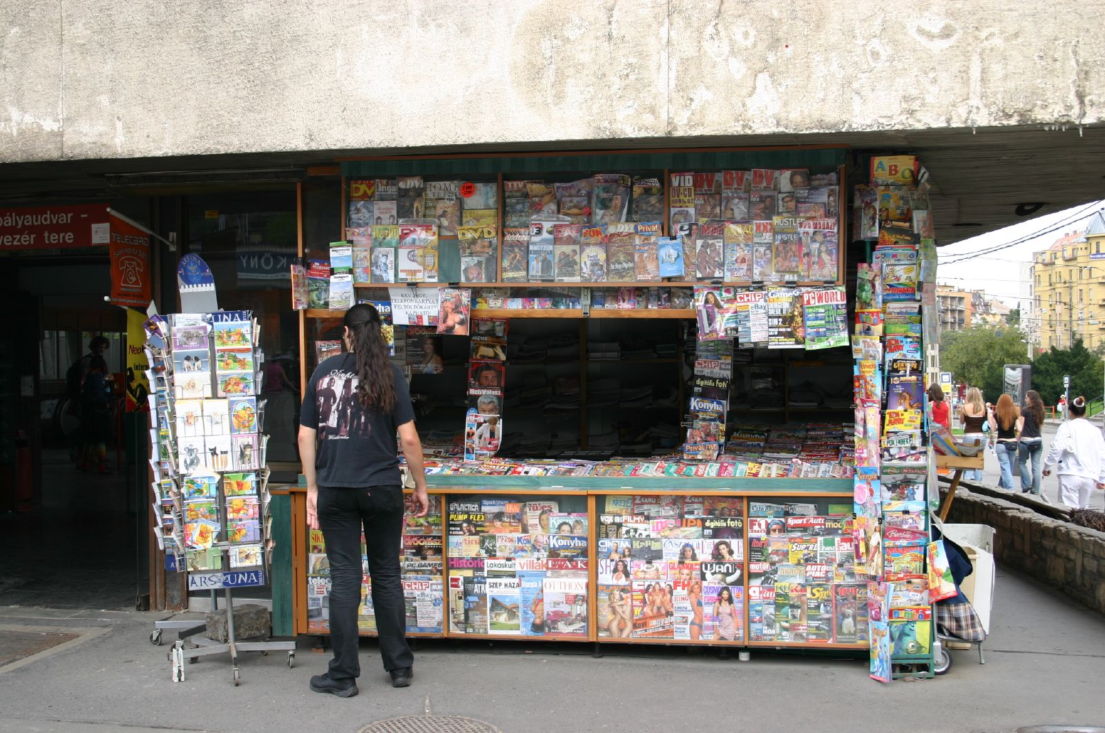 Moskva Ter Newspaper Stand